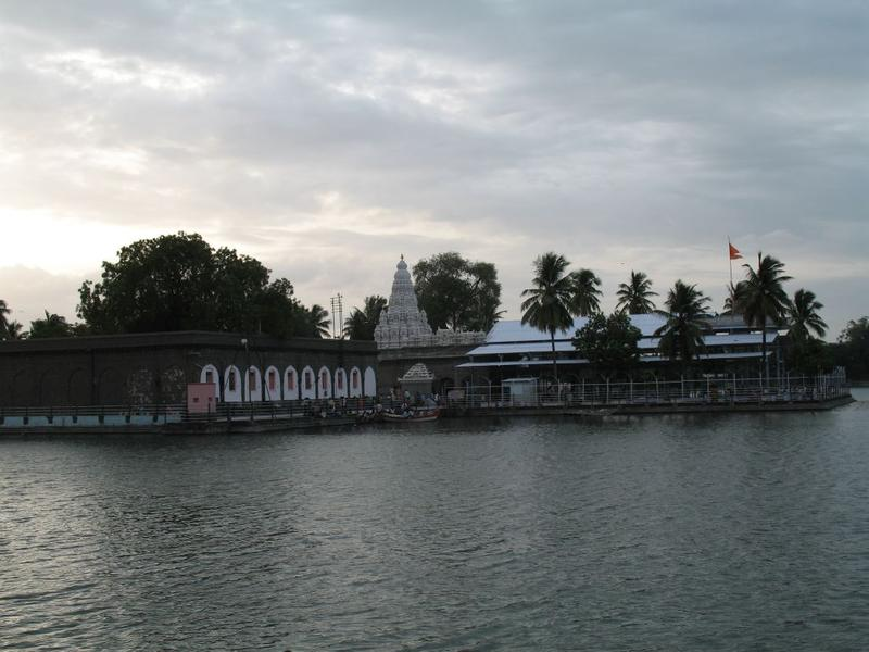 This is the Temple of Shri.Siddheshwar at Solapur, Maharashtra,India